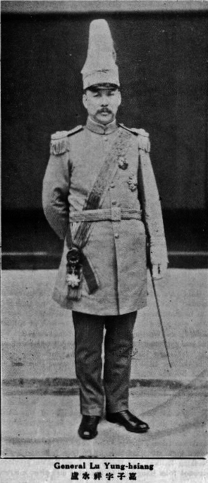 Lu Yongxiang, Zijia (1867 - 1933)